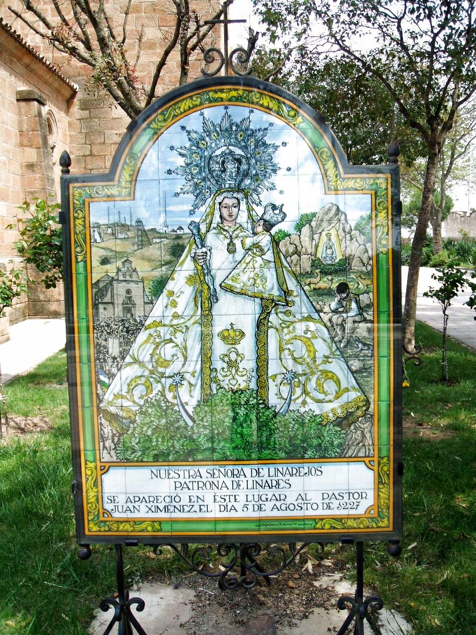 Santuario de Nuestra Señora de Linarejos, en Linares (Jaén, Andalucía, España)